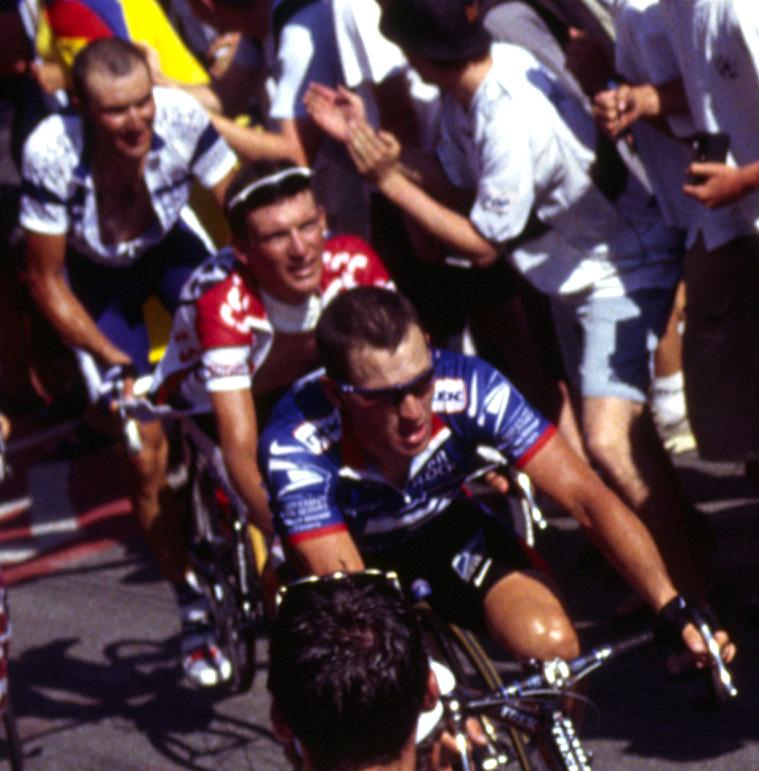 The 2003 Tour de France on Alpe d'Huez, with Lance Armstrong, Tyler Hamilton, Ivan Basso, Haimar Zubeldia, Joseba Beloki and Roberto Laiseka.